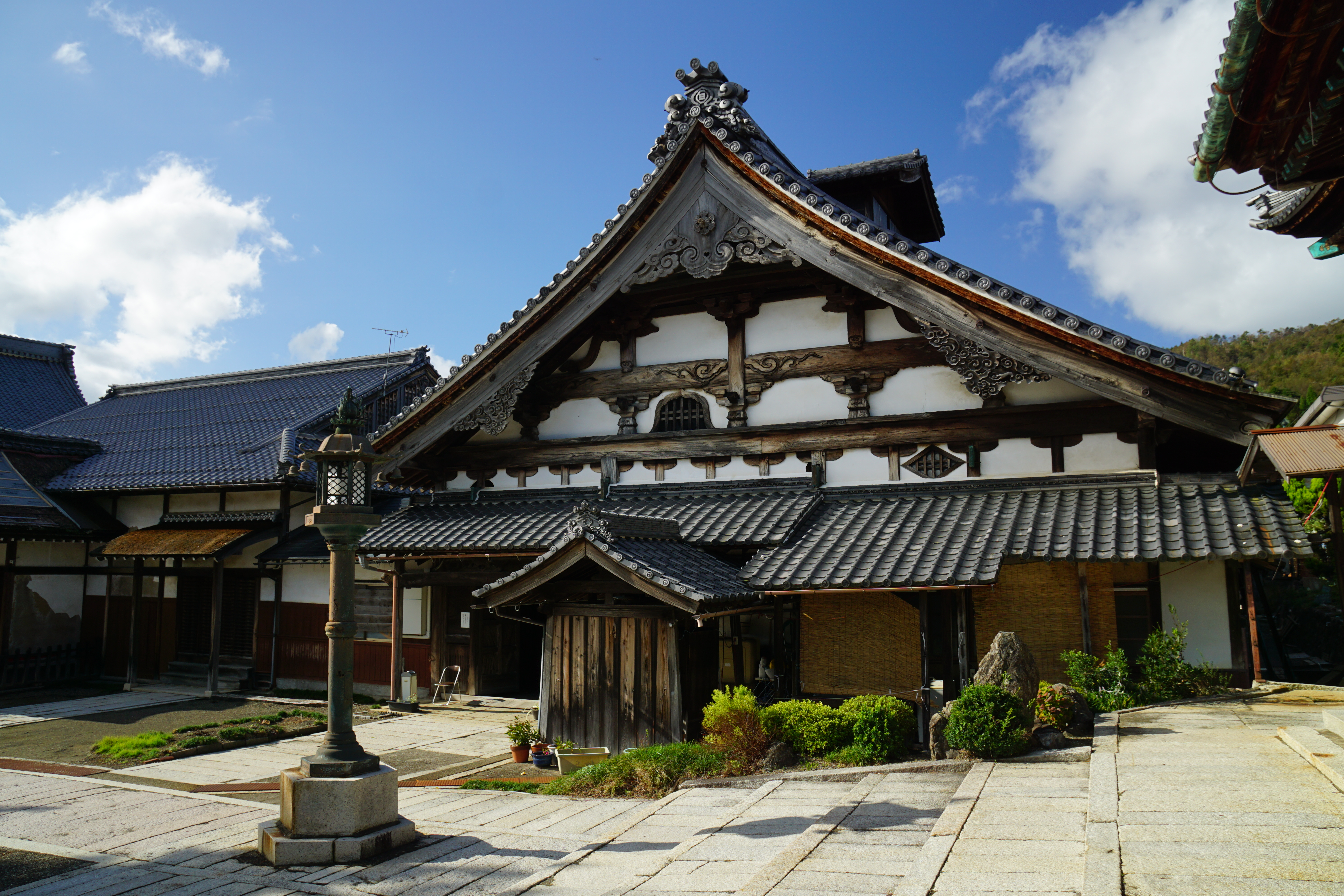 Kinomoto-Jizo-in in Nagahama, Shiga prefecture, Japan